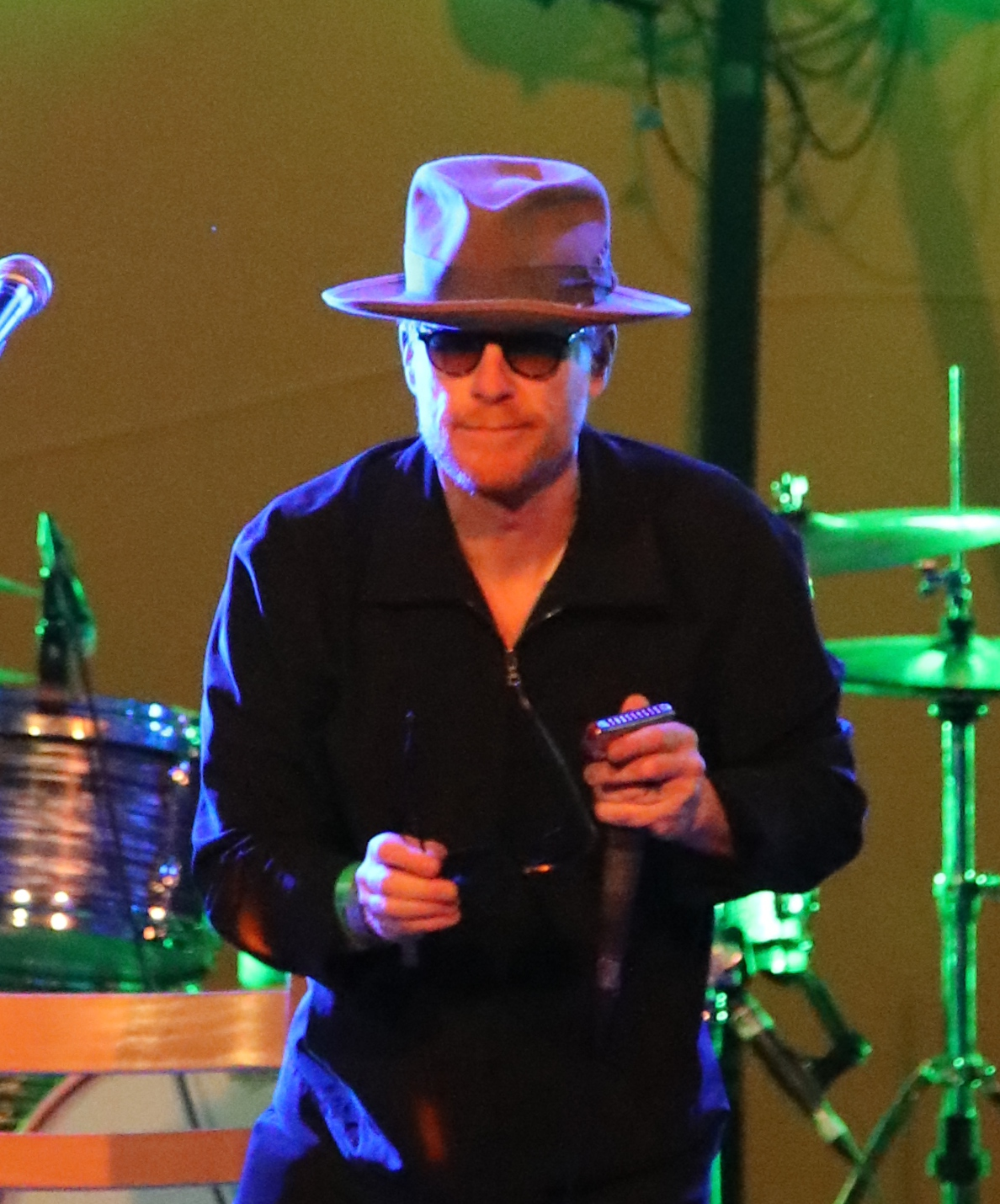 Photo of Son of Dave performing at byline festival